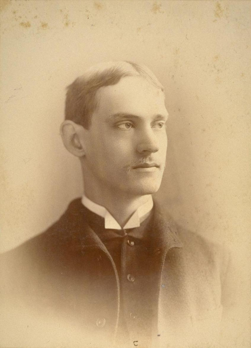 John Galen Howard (1864-1931), American architect who designed some of the initial buildings for the University of California, Berkeley.